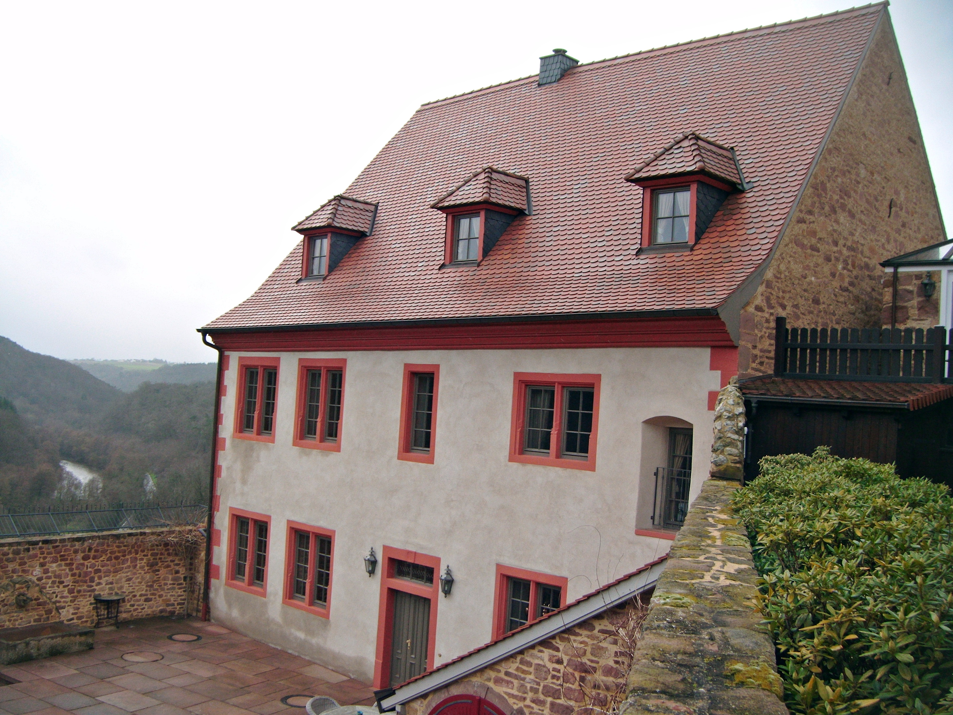 Bischöflich Wormser Kellerei Neuleiningen